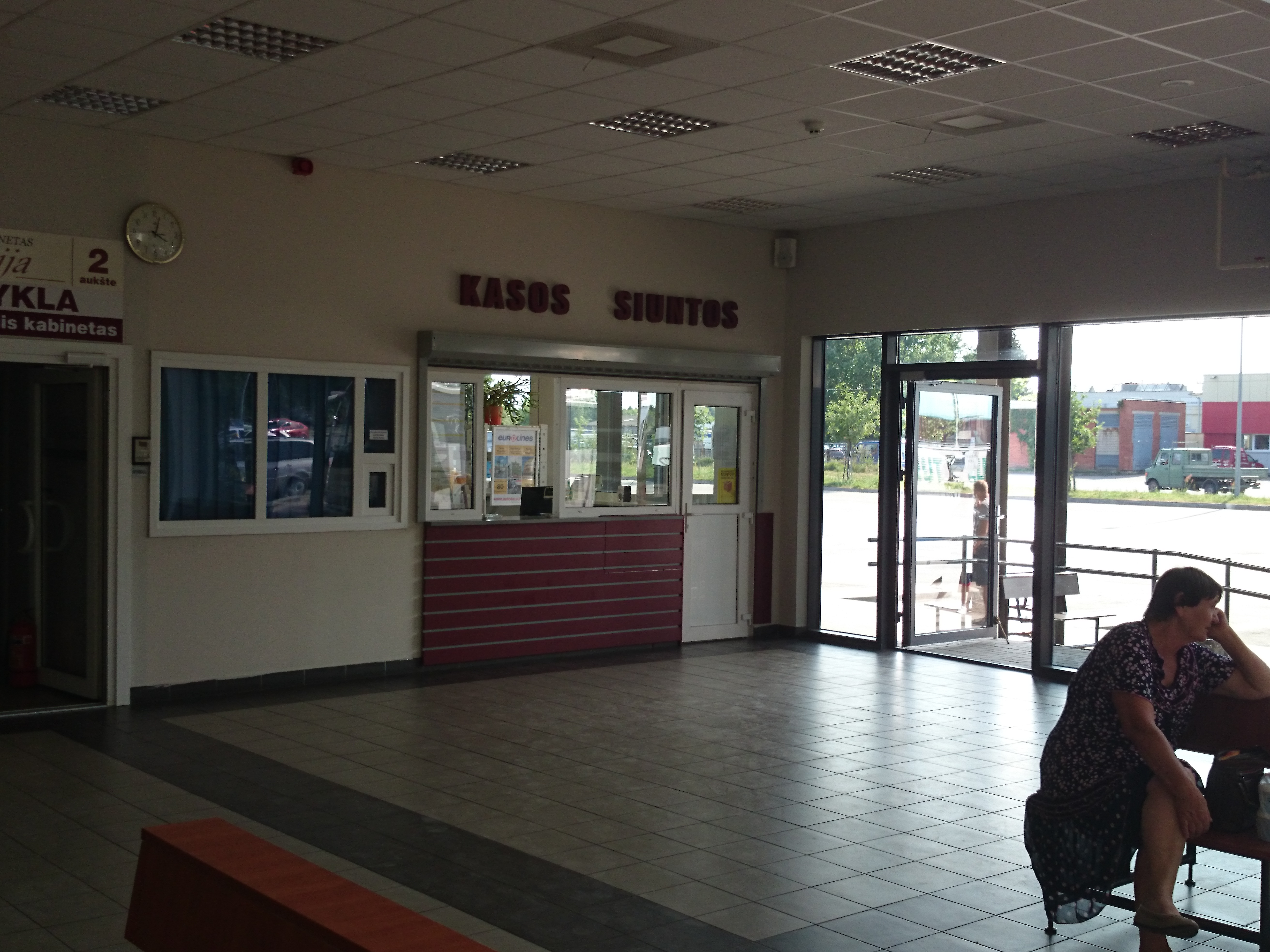 Kėdainiai Bus Station